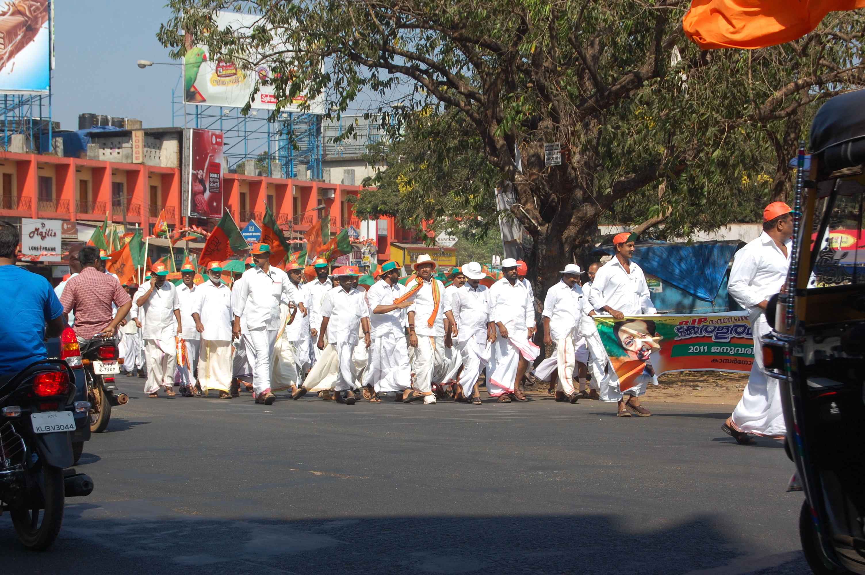 Kerala Raksha Yatra organized by BJP in Kerala. The walk was led by Kerala state unit Chief V Muraleedharan.